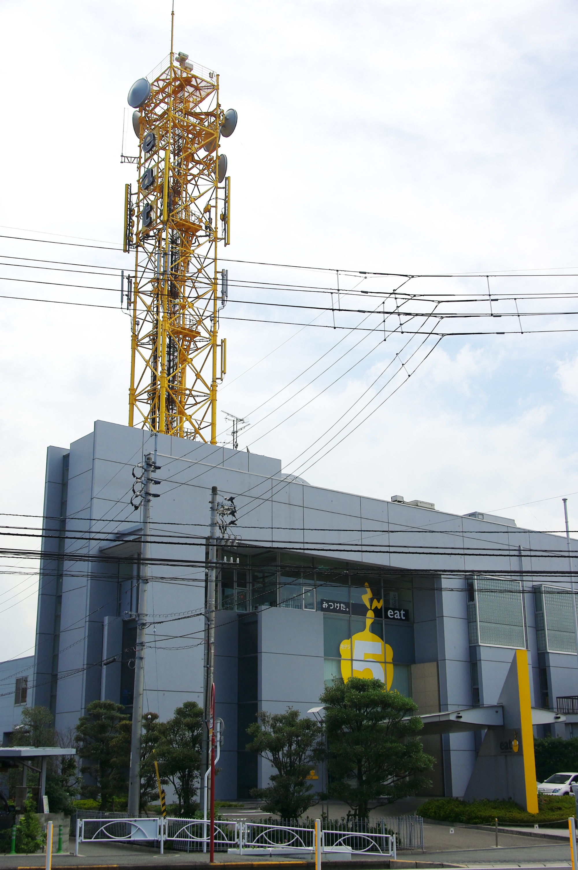 Photograph of the headquarters of Ehime Asahi Television Company (EAT), in Matsuyama, Ehime Prefecture, Japan.